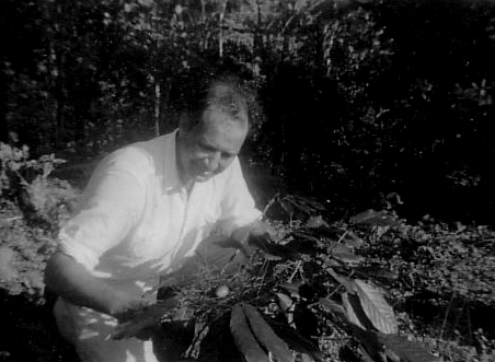 Procnias averano Photo of first recorded Bearded Bellbird egg in nest held by Dr. Wilbur Downs, Director of the Trinidad Regional Virus Laboratory. Photo taken by my father, Ted Hill in Trinidad in the 1950s. I have inherited this photo and am pleased to share it with everyone. John Hill.